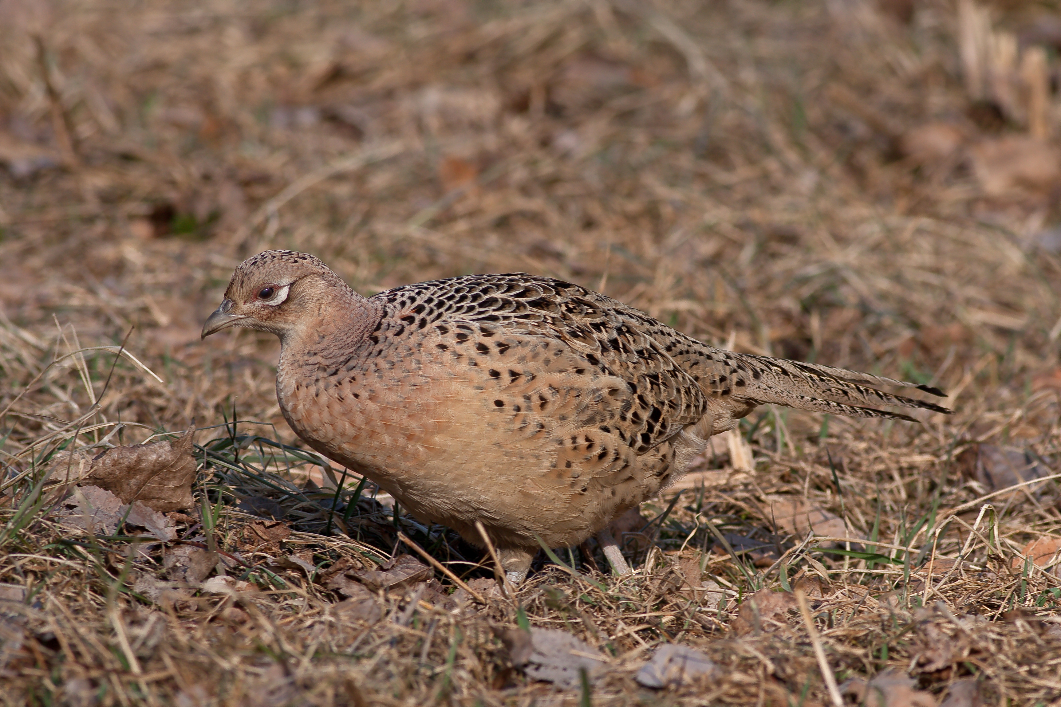 Common Pheasant (Phasianus colchicus) female, photographed near Vanhankaupunginlahti, Finland. Notice how the colouration effectively camouflages the bird.